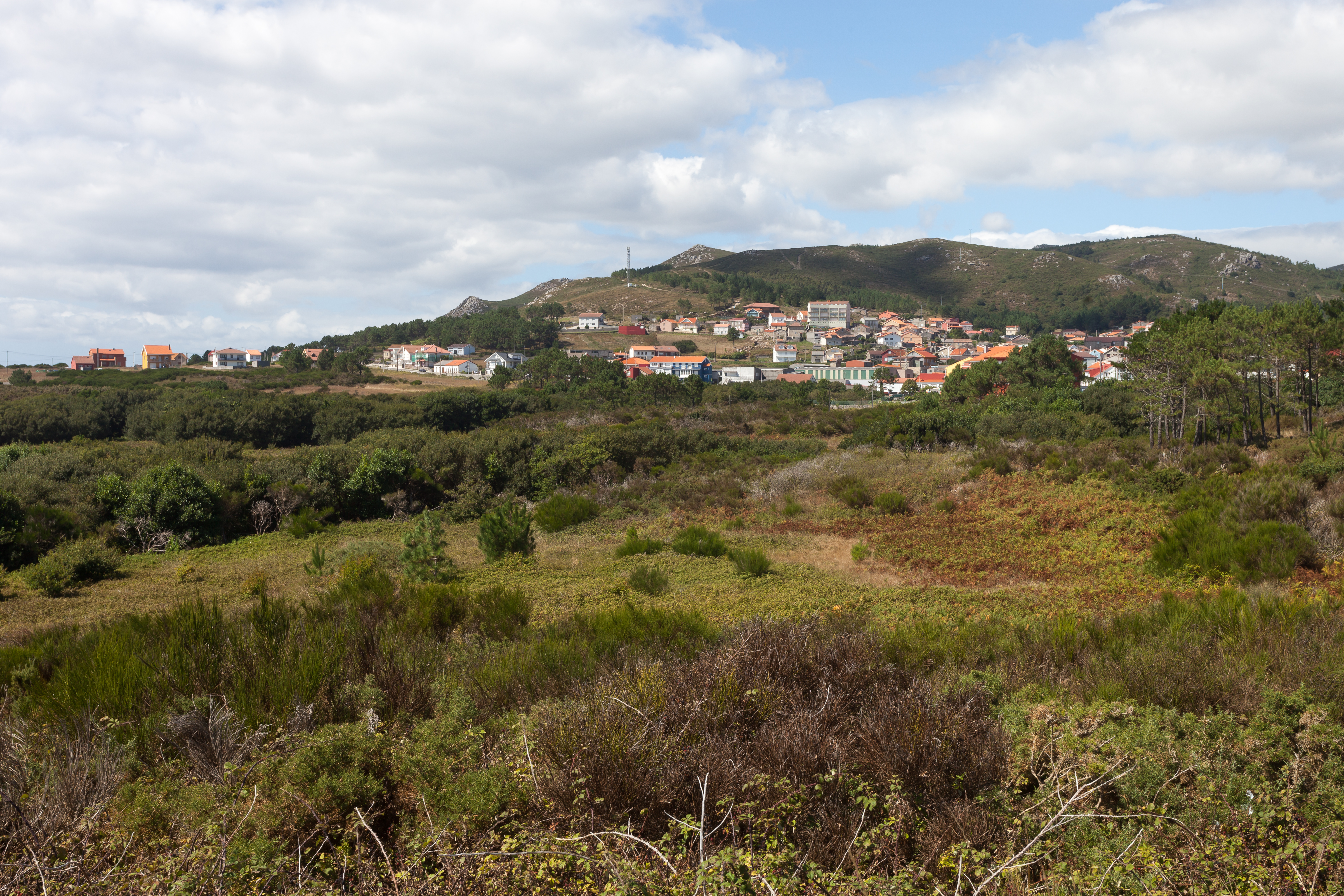 Lariño, Carnota, Galicia (Spain).